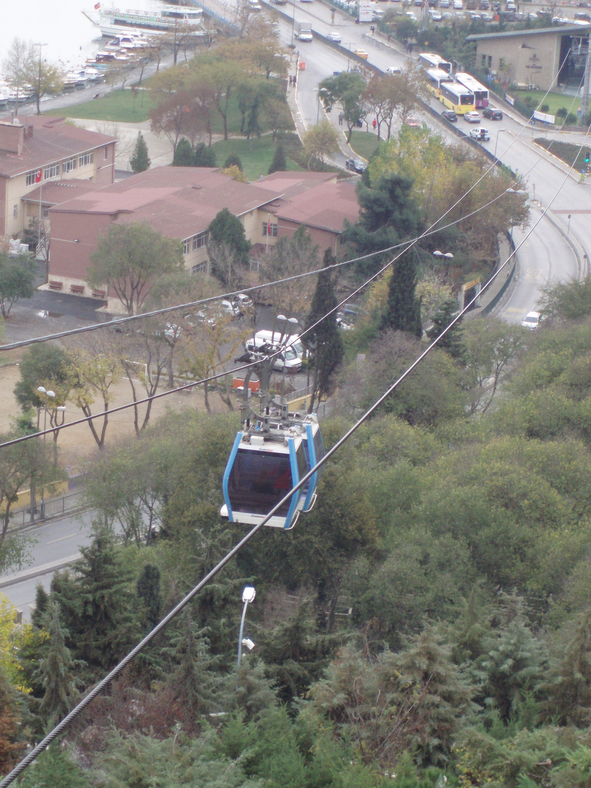 enEyüp Gondola Lift